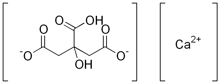 Chemical structure of dicalcium citrate